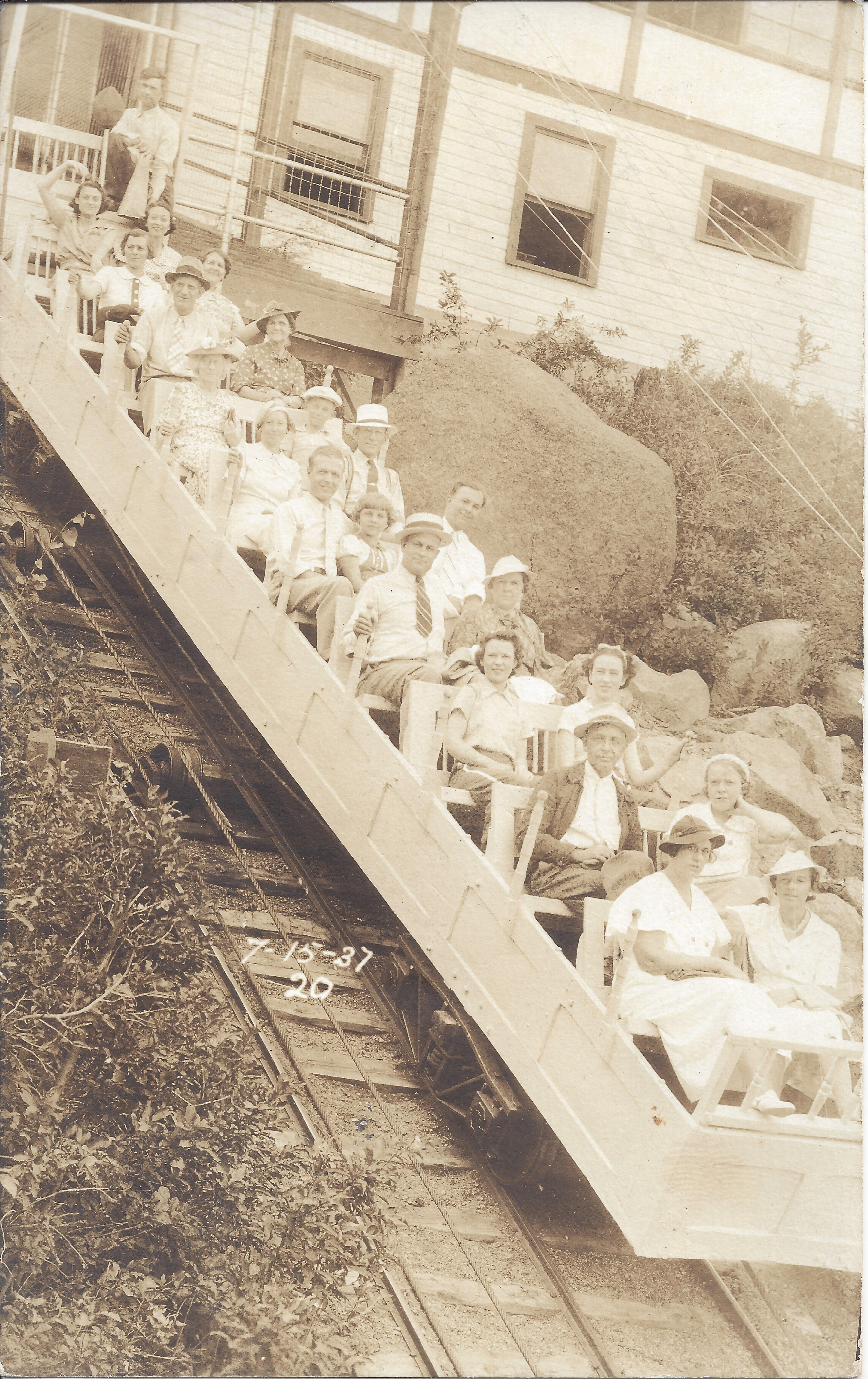 Incline boxcar with Charlotte Samuel(12 yrs old) & Uncle Lawrence Krump 5th row from bottom-July, 15 1937.